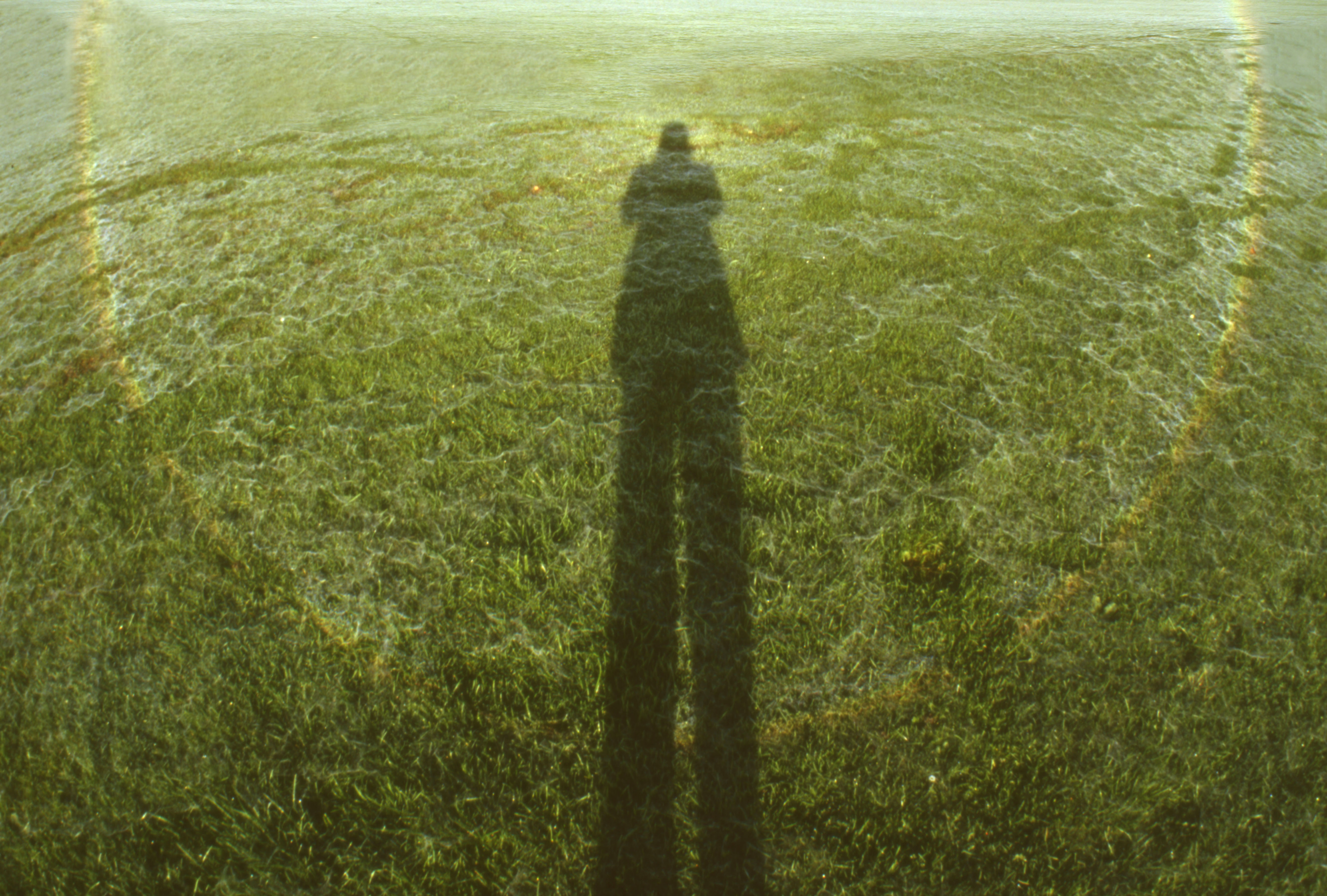 A rainbow created by dewdrops on grass.